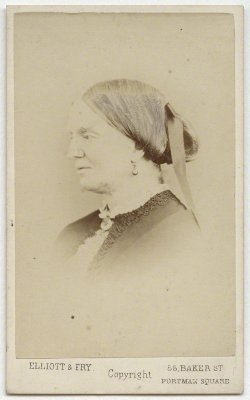 Margaret Gatty (née Scott) by Elliott & Fry, albumen carte-de-visite, 1860s